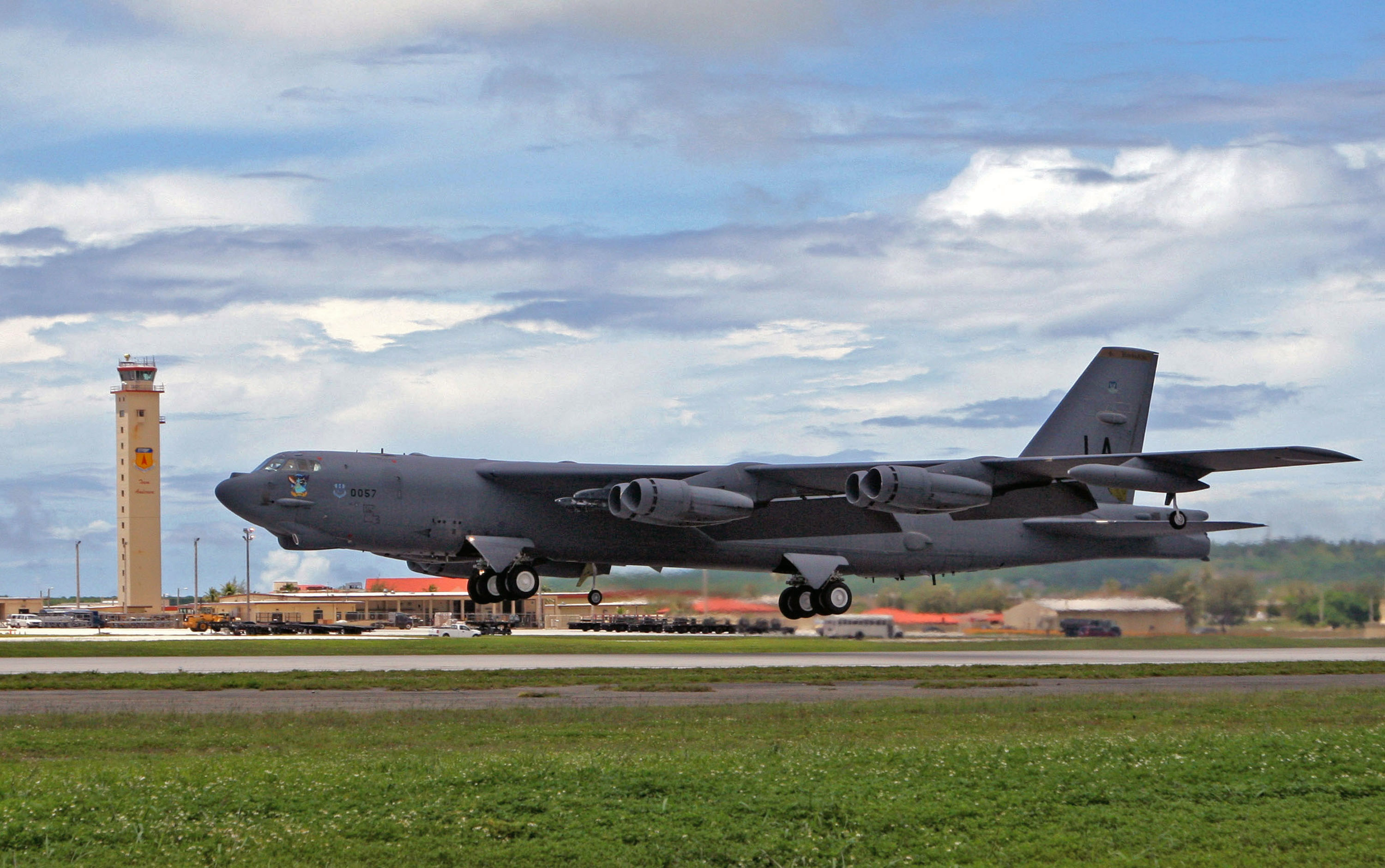 A B-52 Stratofortress takes off from Andersen Air Force Base, Guam, to participate in an exercise scenario Aug. 22. The aircraft, aircrew and maintainers are deployed from Barksdale AFB, La., as part of the continuous bomber presence in the Pacific region. During their deployment to Guam, the bomber squadron's participation in exercises will emphasize the U.S. bomber presence, demonstrating U.S. commitment to the Pacific region. (U.S. Air Force photo/Senior Master Sgt. Mahmoud Rasouliyan)